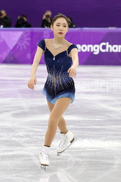 CHOI Dabin KOR – 7th Place